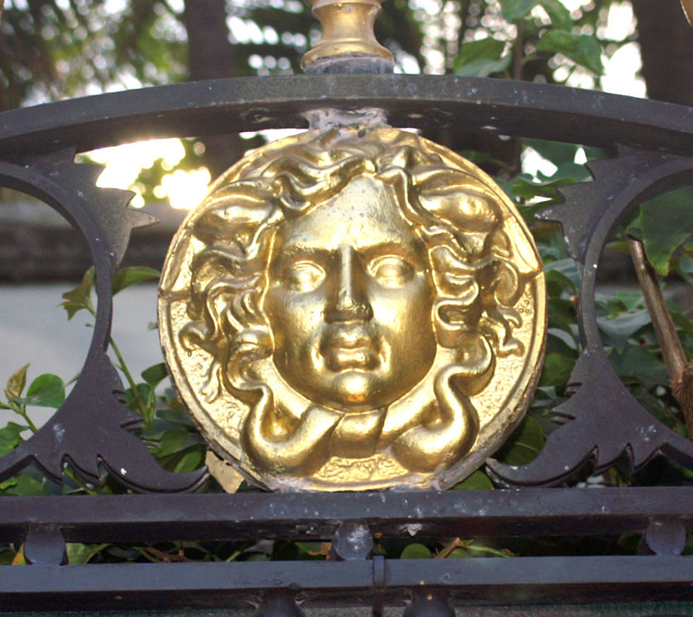 Detail from Gianni Versace's Mansion, Miami Beach, FL. Ocean Drive and 11th Street